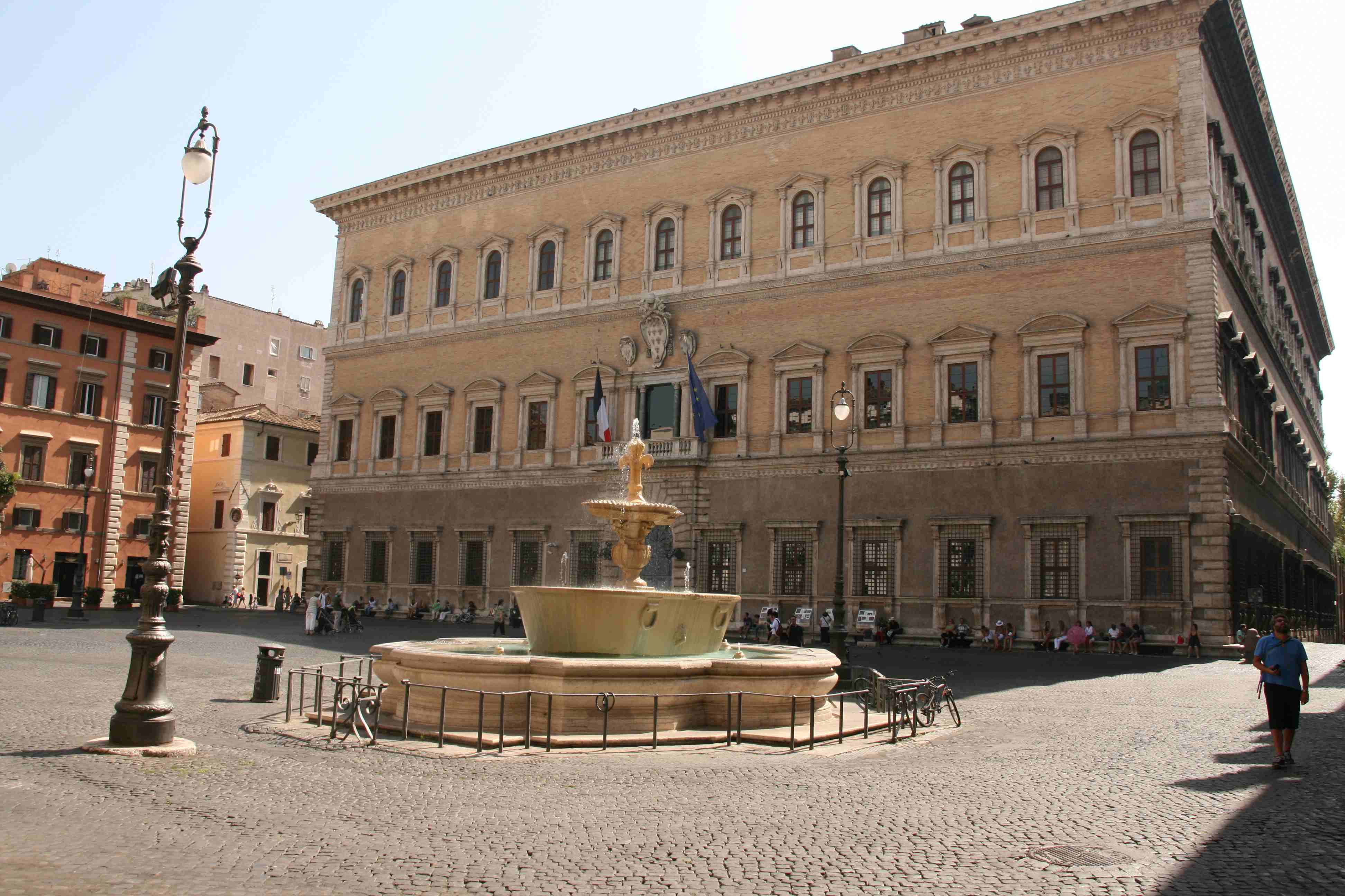 Palazzo Farnese, Rome.